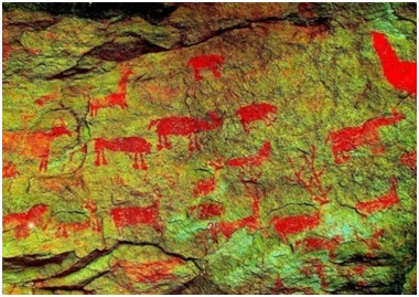 Animal zoo depicting Indian Rhino ( now extinct in the region), Wild bear, Indian Gaur, Swamp Deer, Sambar Deer, Spotted Deer, Chinkara, Leopard, Shivathereum ( ?..now extinct ), Aardvark (?), other indistinguishable animal figures.